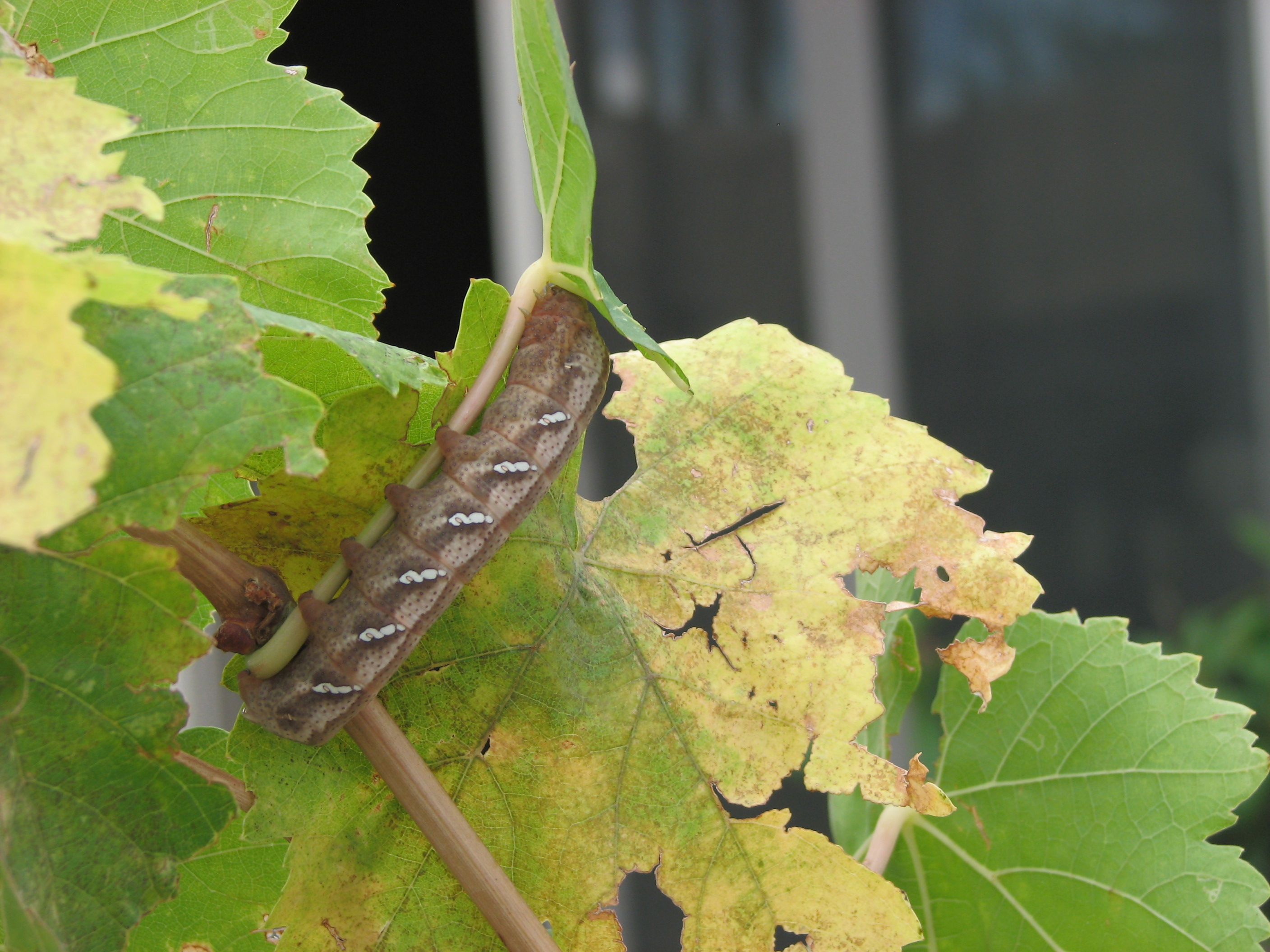 Eumorpha achemon larva on grape vine in Albuquerque, NM, USA. Length approximately 7.62 cm (3 inches); width and height approximately 1.27 cm (0.5 inch). Identification by Dr. Carol Sutherland, Extension Entomologist, New Mexico State University, and State Entomologist, New Mexico Department of Agriculture (USA).